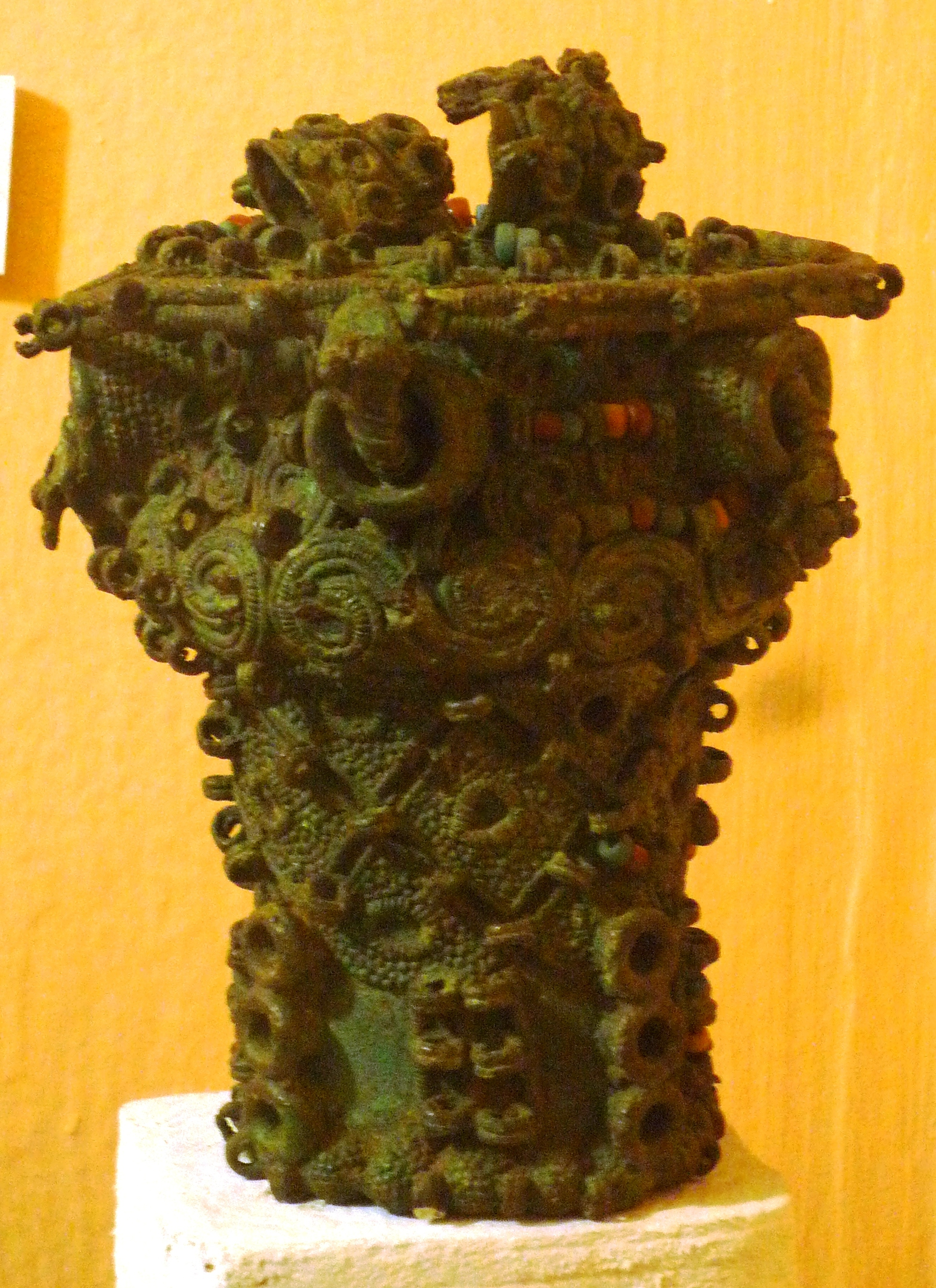 A 9th century bronze ceremonial pot found in Igbo-Ukwu, Ananmbra State, Nigeria. Presently located in the National museum, Onikan, Lagos, Nigeria.